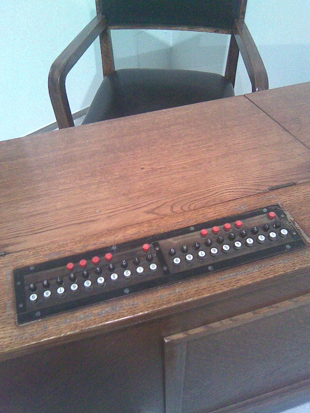 Helsinki Stock Exchange old electromechanical trader terminal, seen in Rahamuseo (Bank of Finland Museum), 2013.